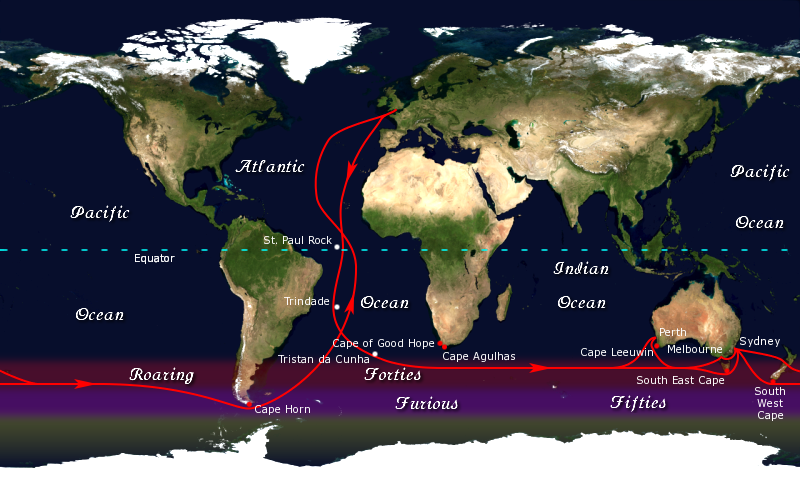 The clipper route sailed by ships between England and Australia / New Zealand. This image was constructed from a public domain Visible Earth product of the Earth Observatory office of the United States government space agency NASA. It is based on a cylindrical equi-distant projection.